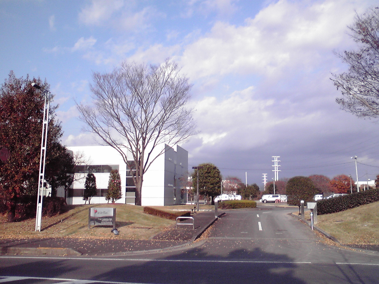 This is a laboratory of pharmaceutical company in Tsukuba, Ibaraki, Japan.